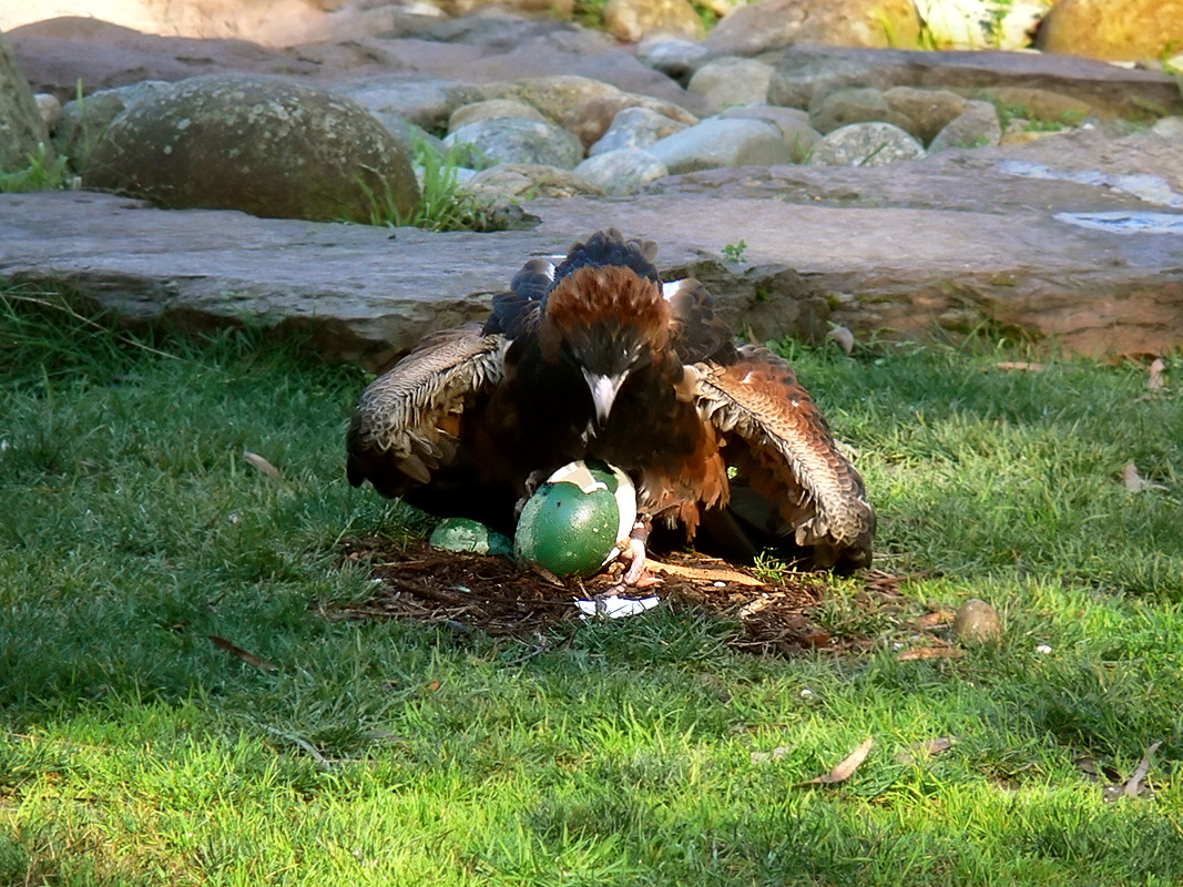 Black breasted buzzard (Hamirostra melanosternon) Stage one